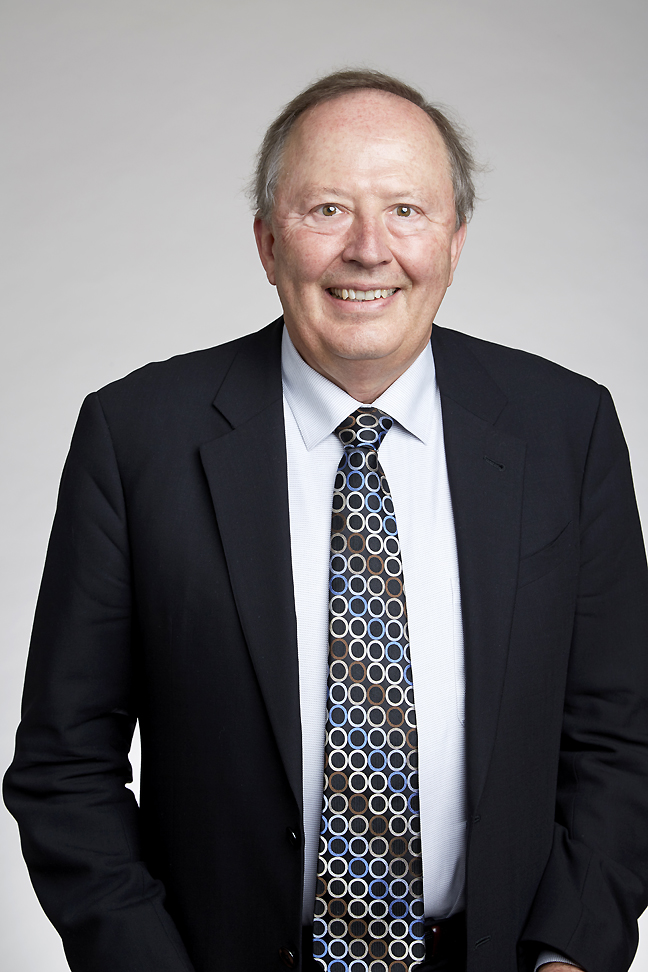 George David Tilman (born July 22, 1949) is an American ecologist and Regents Professor at the University of Minnesota Attribution: The Royal Society